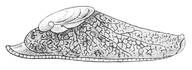 Schizoglossa novoseelandica